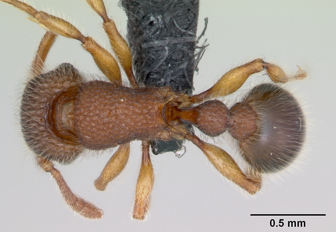 Dorsal view of ant Tetramorium lanuginosum specimen casent0125328.